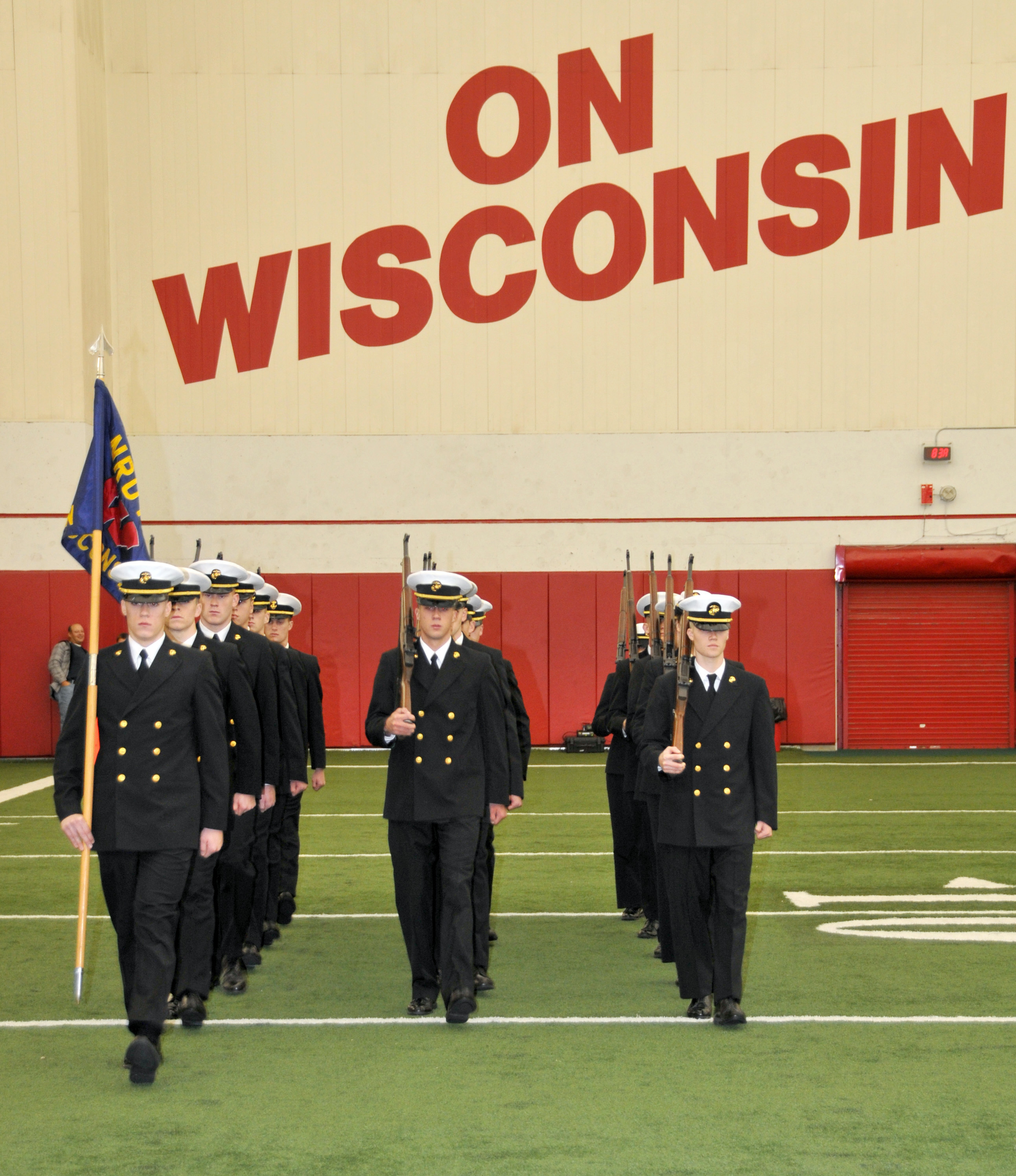 MADISON, Wis. (Oct. 10, 2009) University of Wisconsin Navy ROTC midshipmen perform a maneuver during the platoon drill competition inside the McClain Indoor Practice Facility at the University of Wisconsin-Madison. The school hosted 11 other Navy ROTC units from around the Midwest at the 37th annual University of Wisconsin NROTC Fall Invitational. The Marquette University NROTC unit won the six-event competition, with the University of Colorado placing second and the University of Michigan finishing third. (U.S. Navy photo by Scott A. Thornbloom/Released)